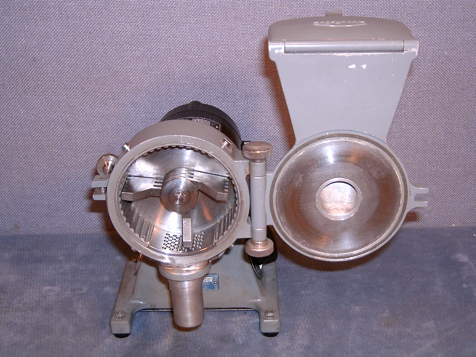 A Glen Creston Stanmore tabletop hammer mill. The input hopper is part of the front door, open in this shot to show the inner mechanism. The outlet has a mesh to determine the maximum particle size.